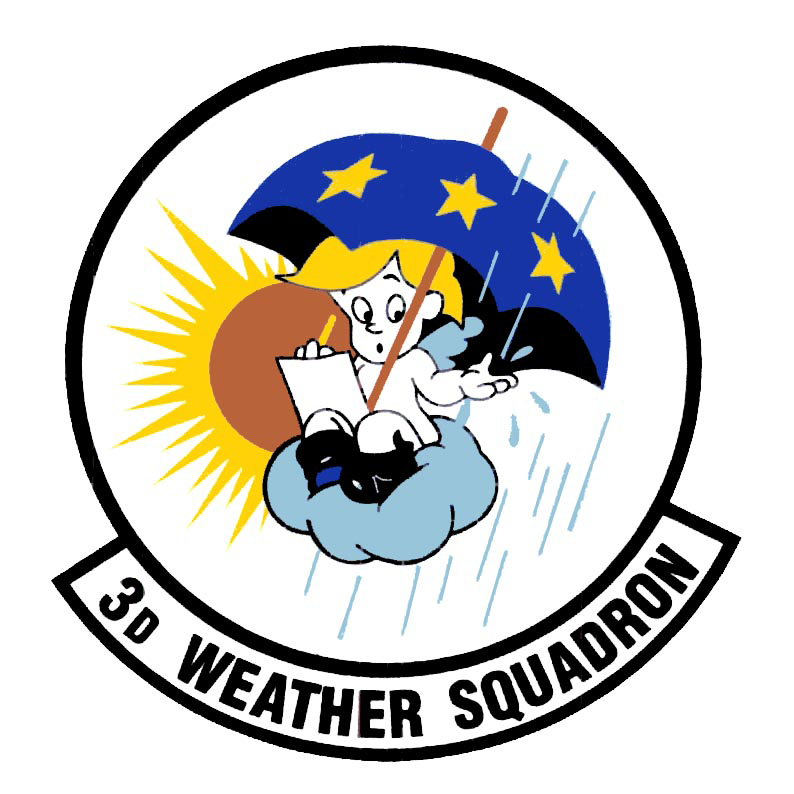 3d Weather Squadron emblem